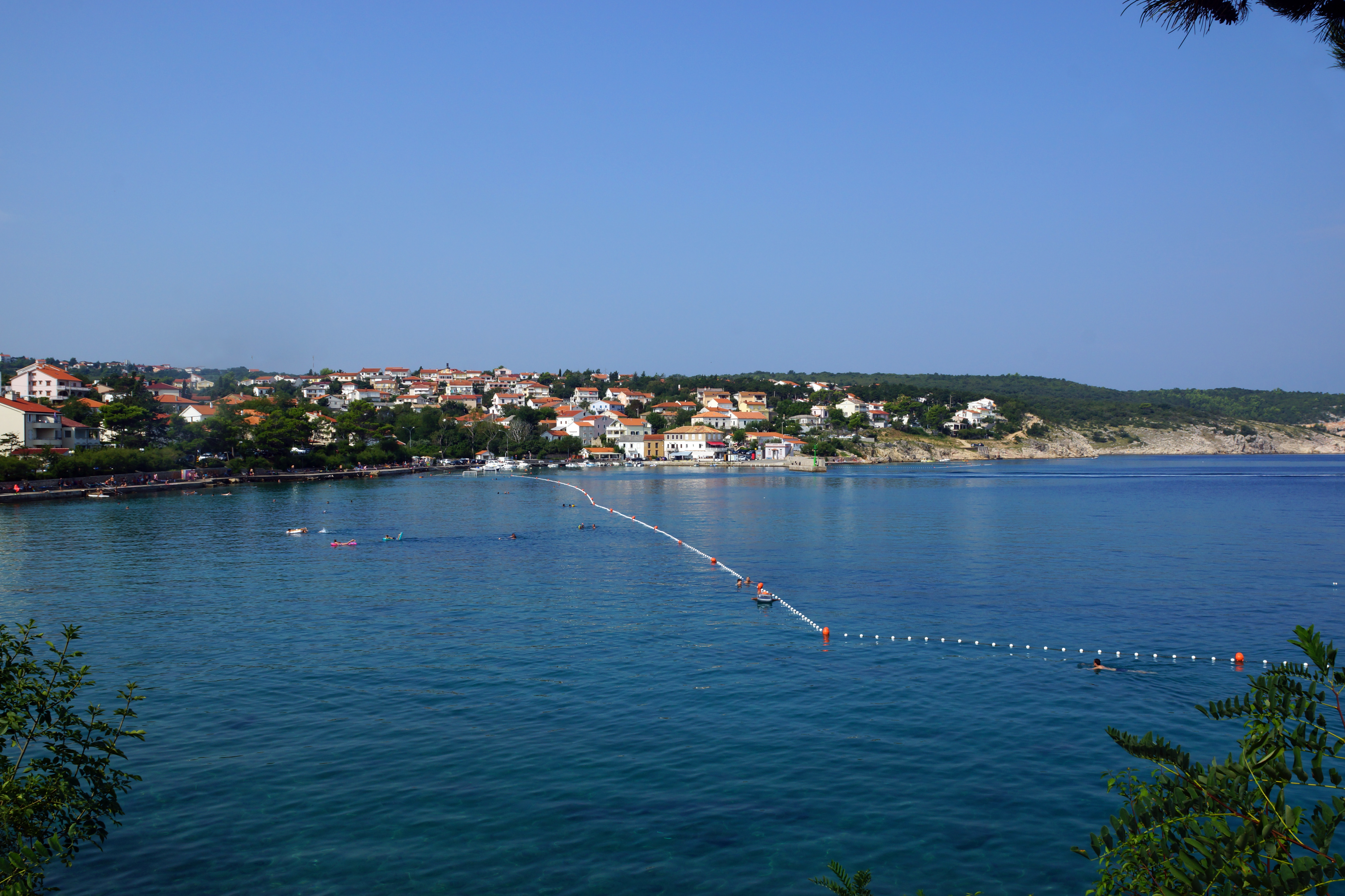 Na vodici Beach, Šilo.